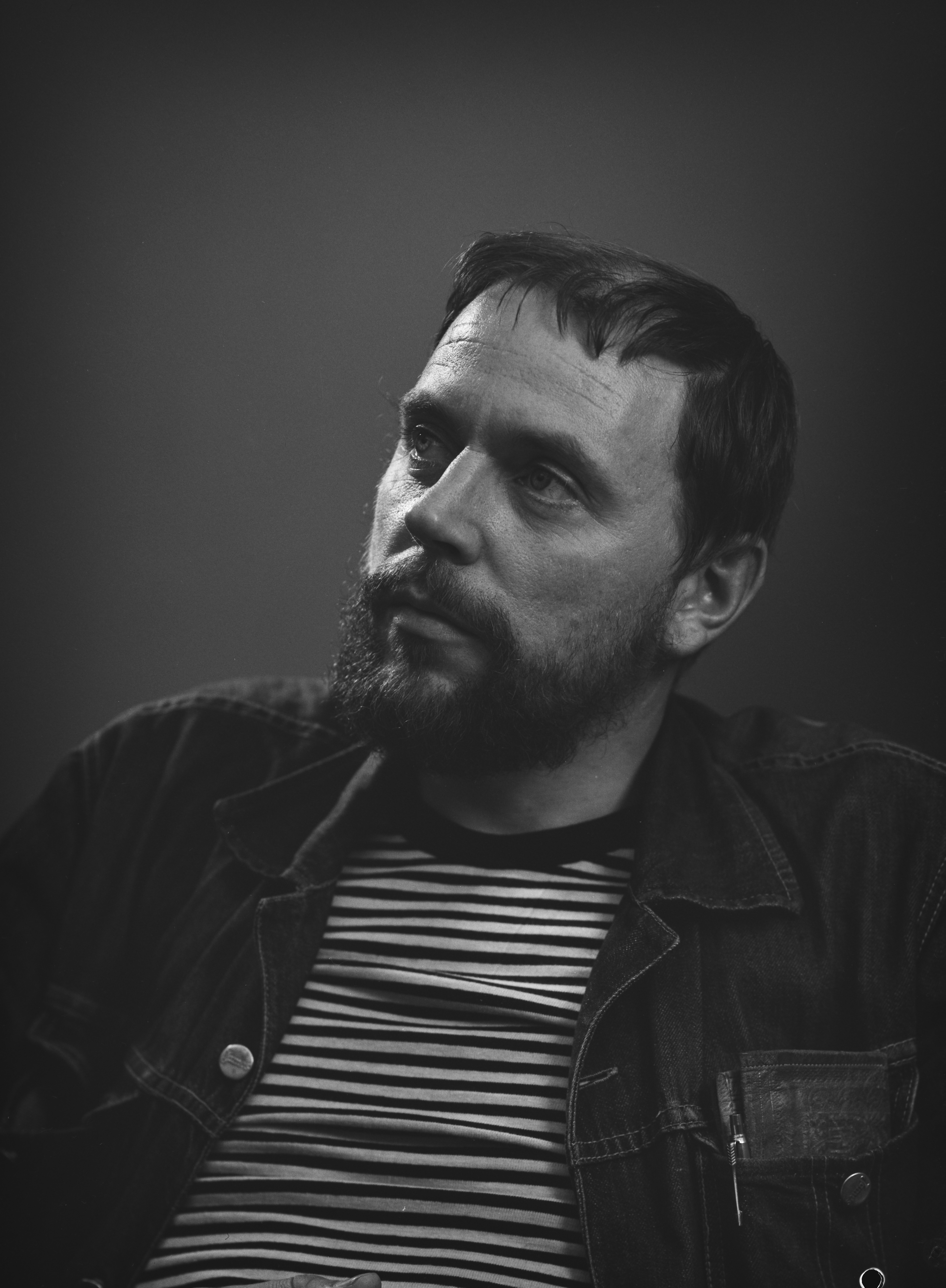 Photograph of the Finnish filmmaker Jaakko Pakkasvirta (1934–2018).